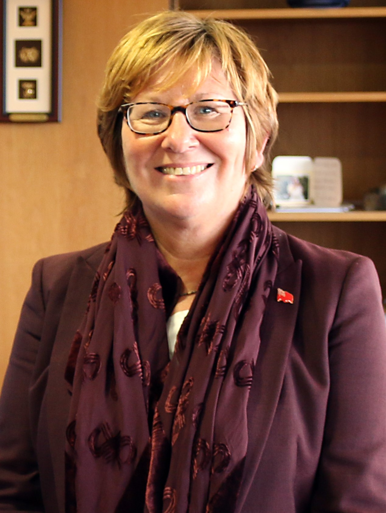 Bernadette Kelly, Companion of the Most Honourable Order of the Bath